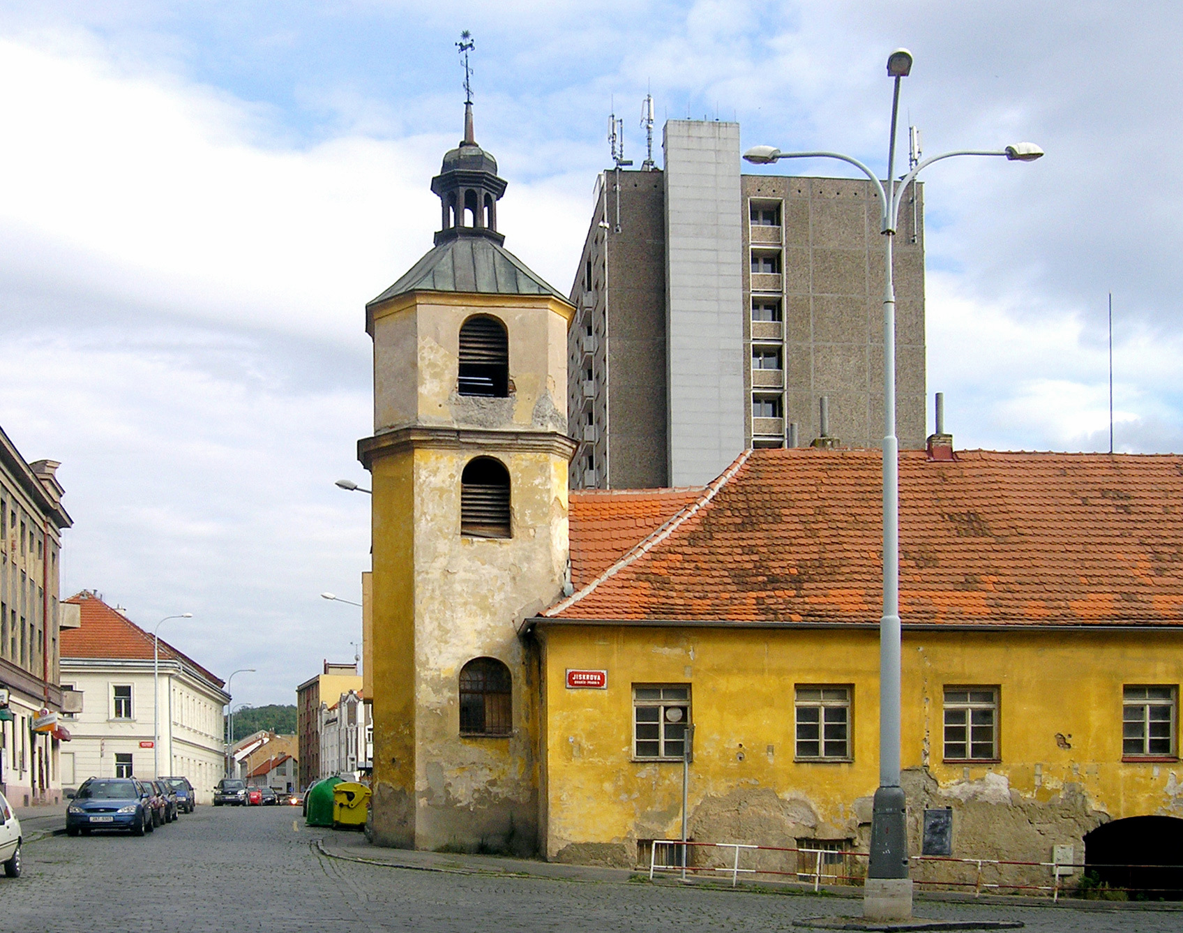 Former Dominician yard from 17th century at Branická street at Braník, Prague